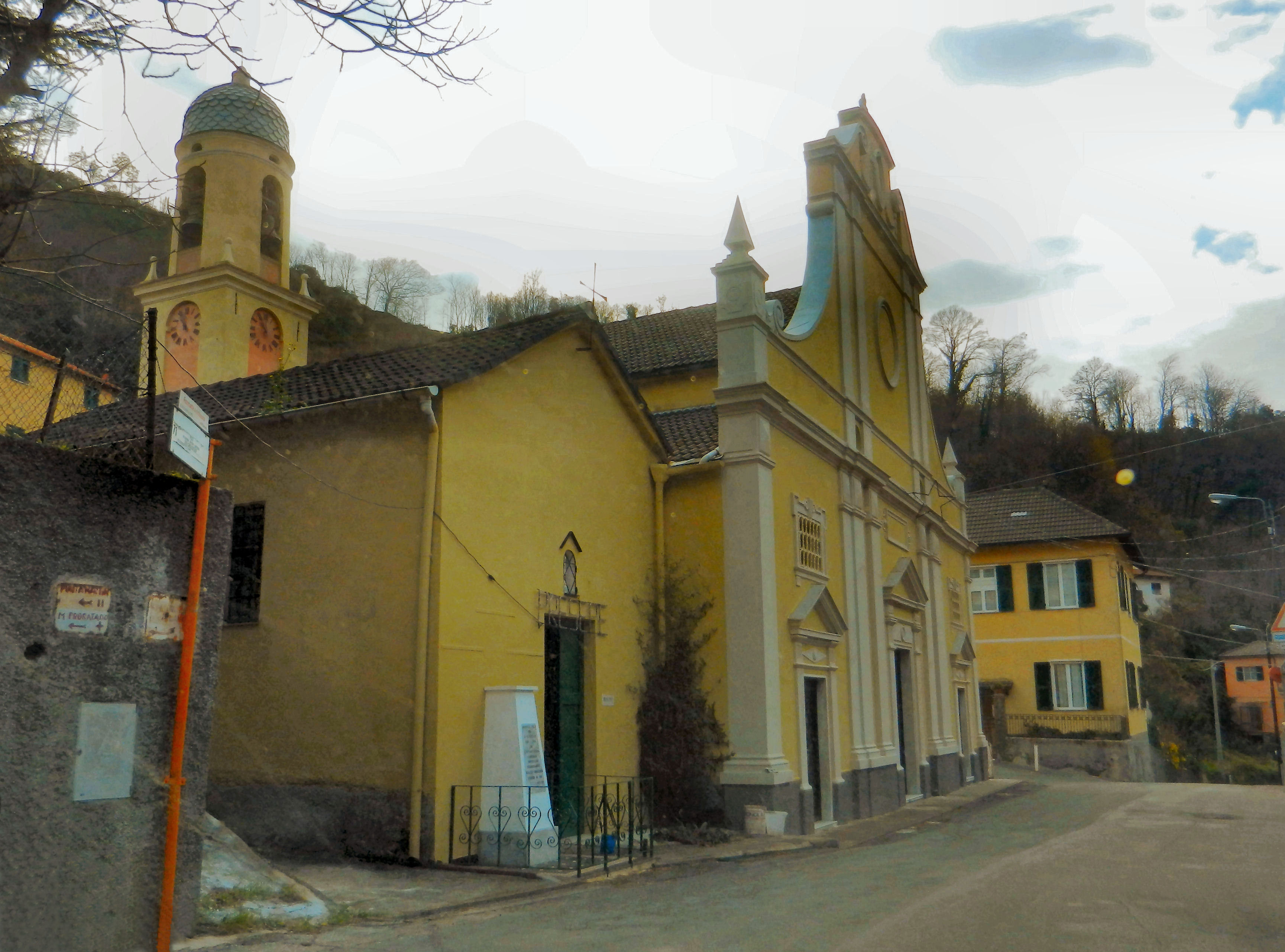 Genoa, Italy, quarter of Pegli, church of St. Charles Borromeo in San Carlo di Cese